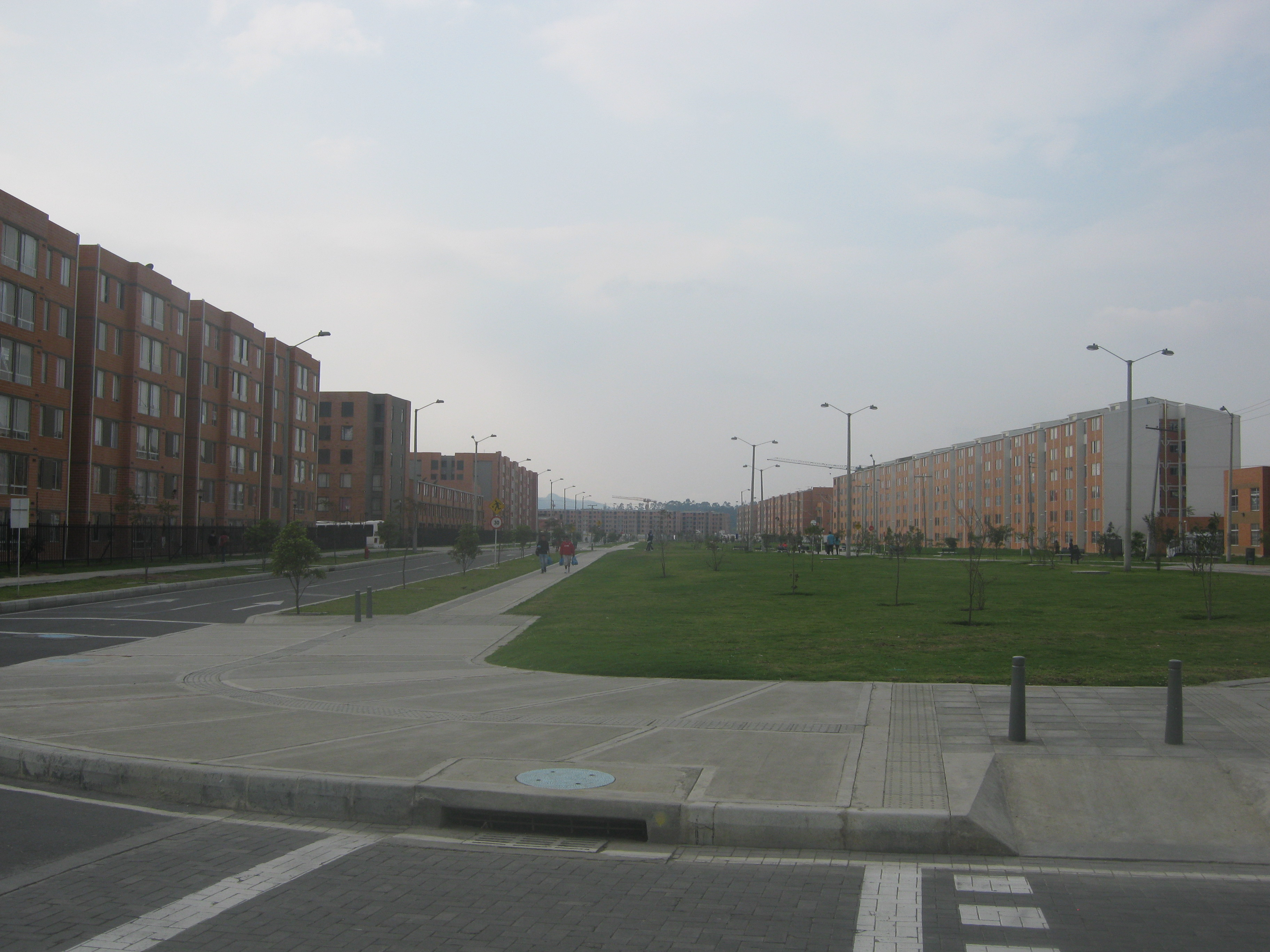 Hortalizas's Walk. Estates under construction to background. (2012)